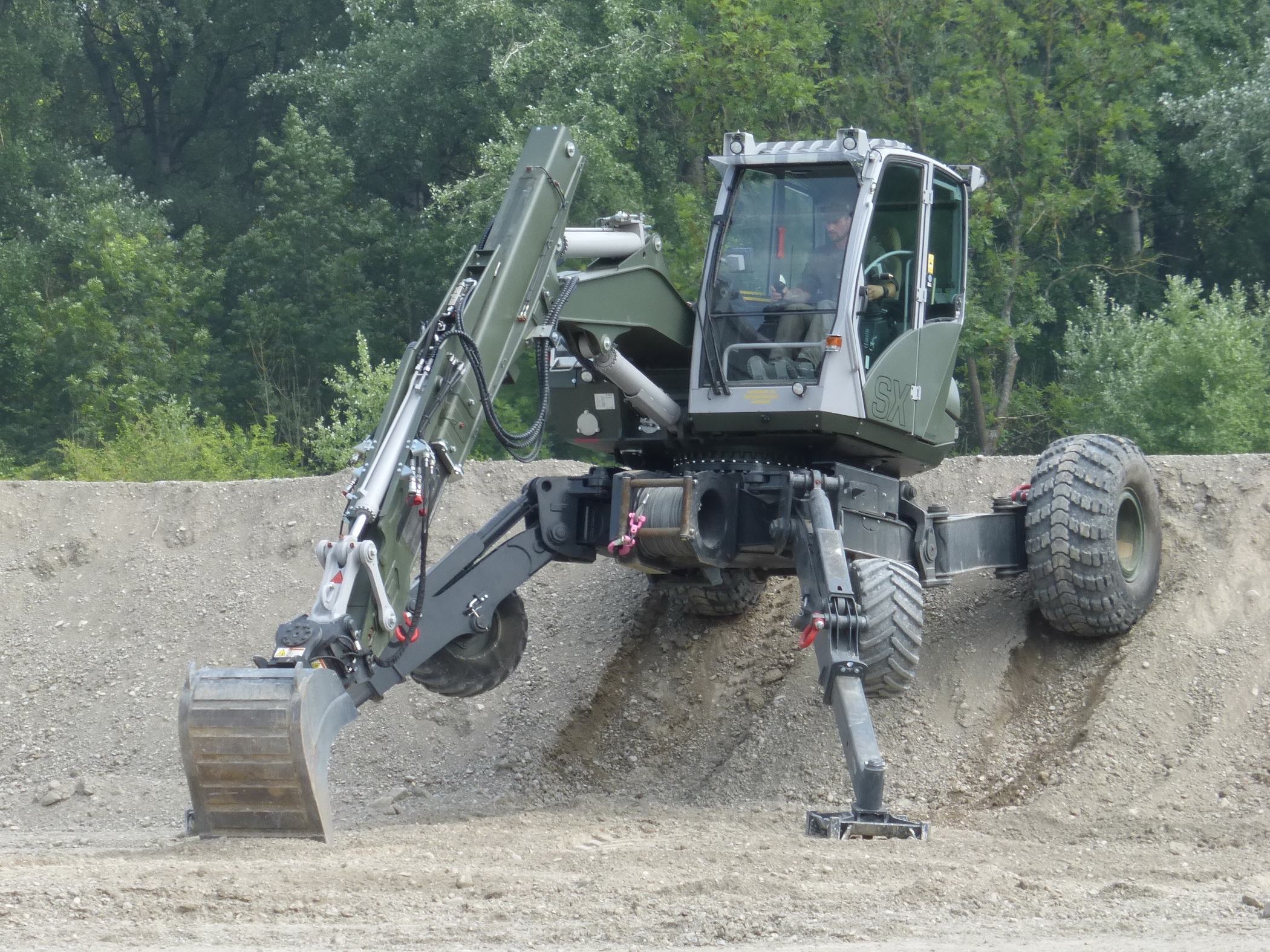 Walking excavator Kaiser SX of the Austrian Bundesheer at the "Day of the Bundeswehr 2018" in Ingolstadt, Bavaria, Germany